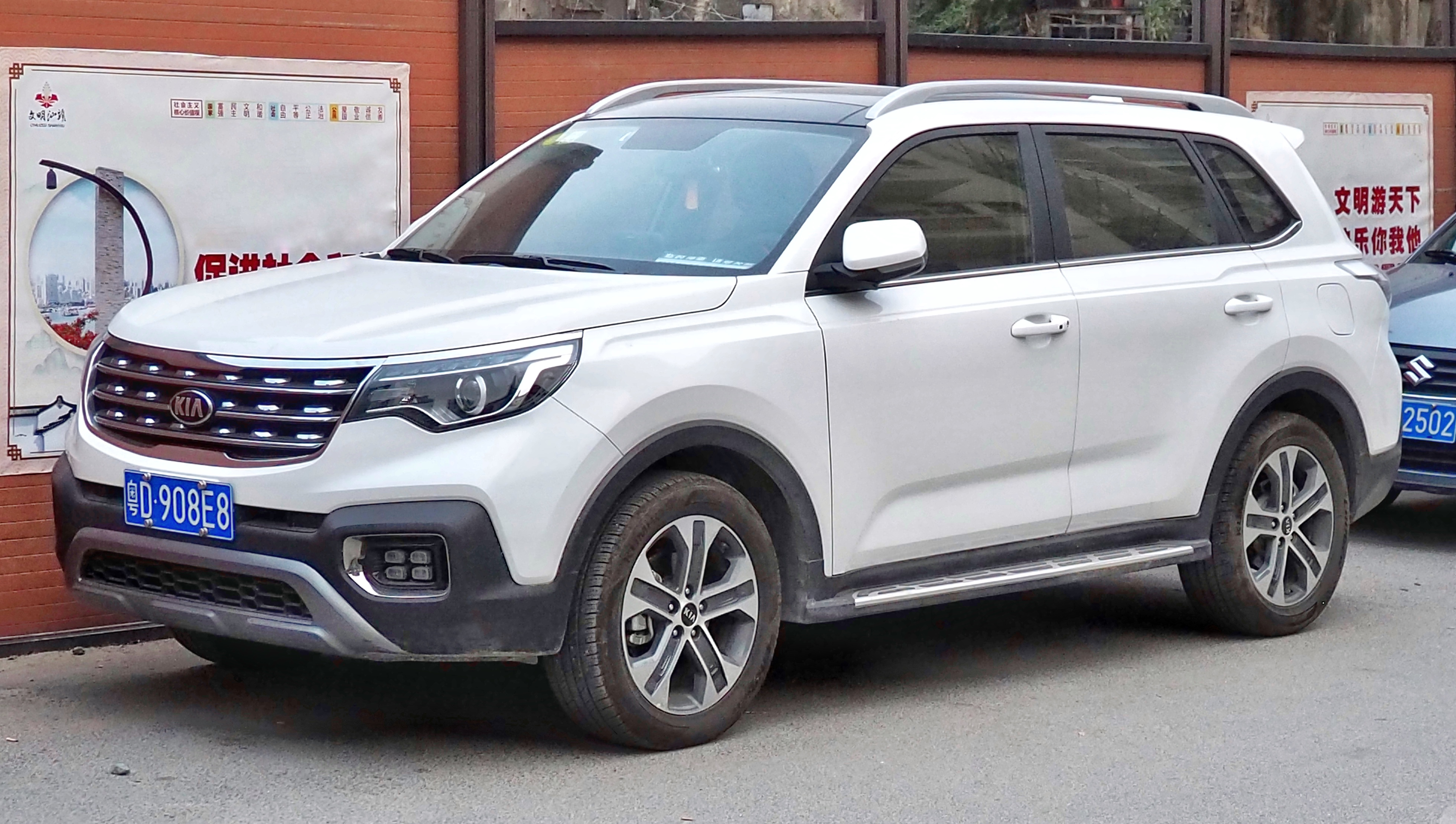 A 2018 Dongfeng-Yueda-Kia Sportage photographed in Shantou, Guangdong Province, China. 中文（中国大陆）: 一辆2018年的东风悦达起亚智跑，拍摄于中国广东省汕头市。